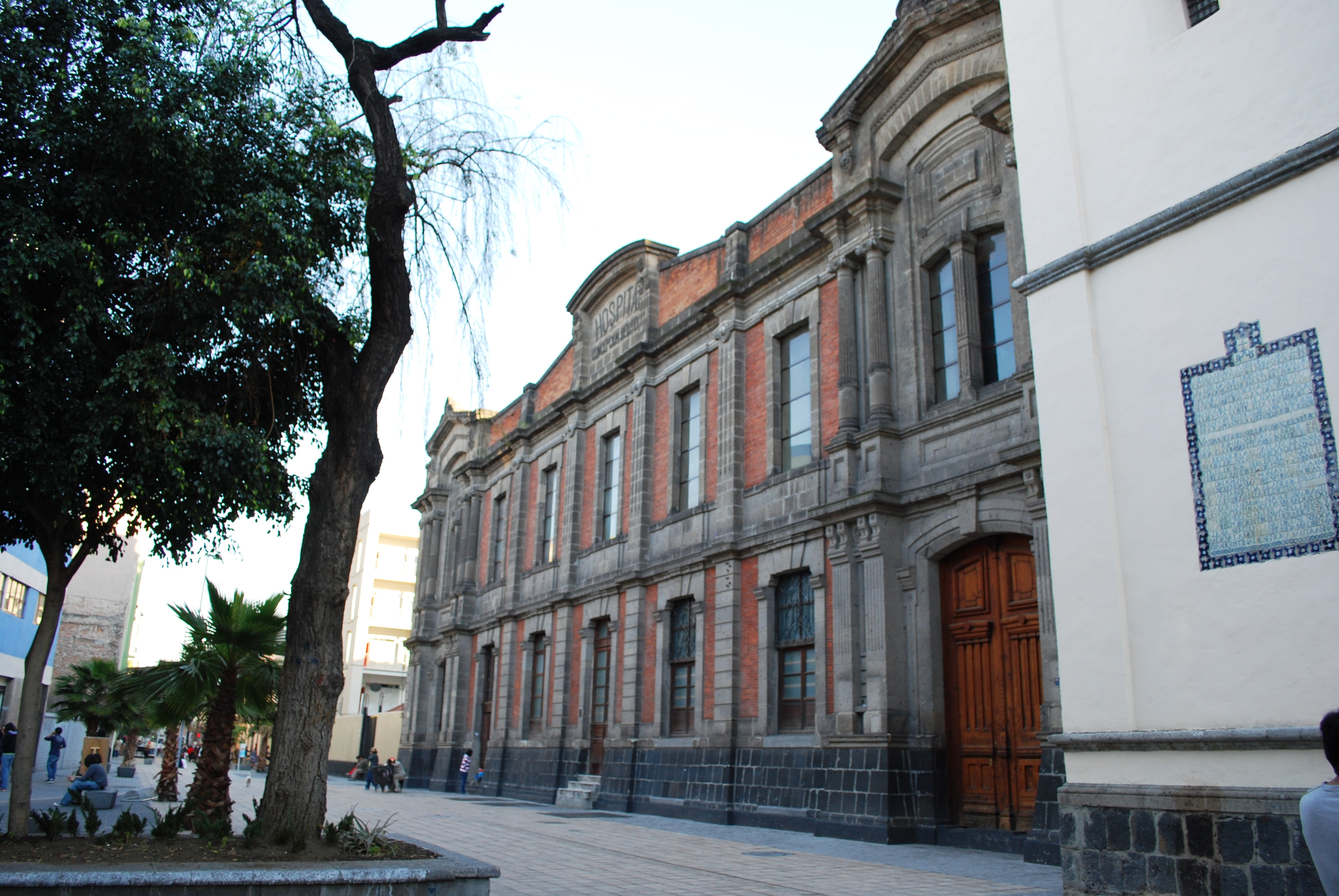 Old hospital building associated with the Regina Coeli Church in the historic center of Mexico City